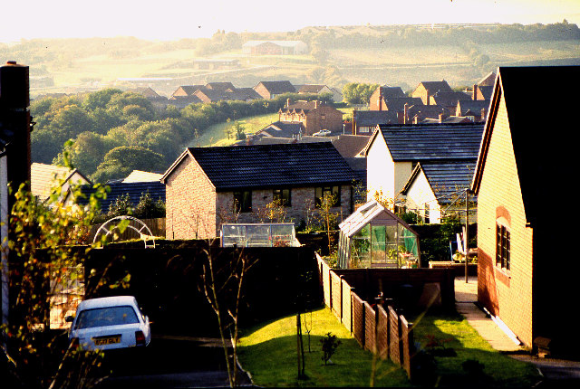 Winter morning light over Woolwell. View from Skylark Rise looking south over a late 1980's early 1990's modern housing development north of Plymouth.